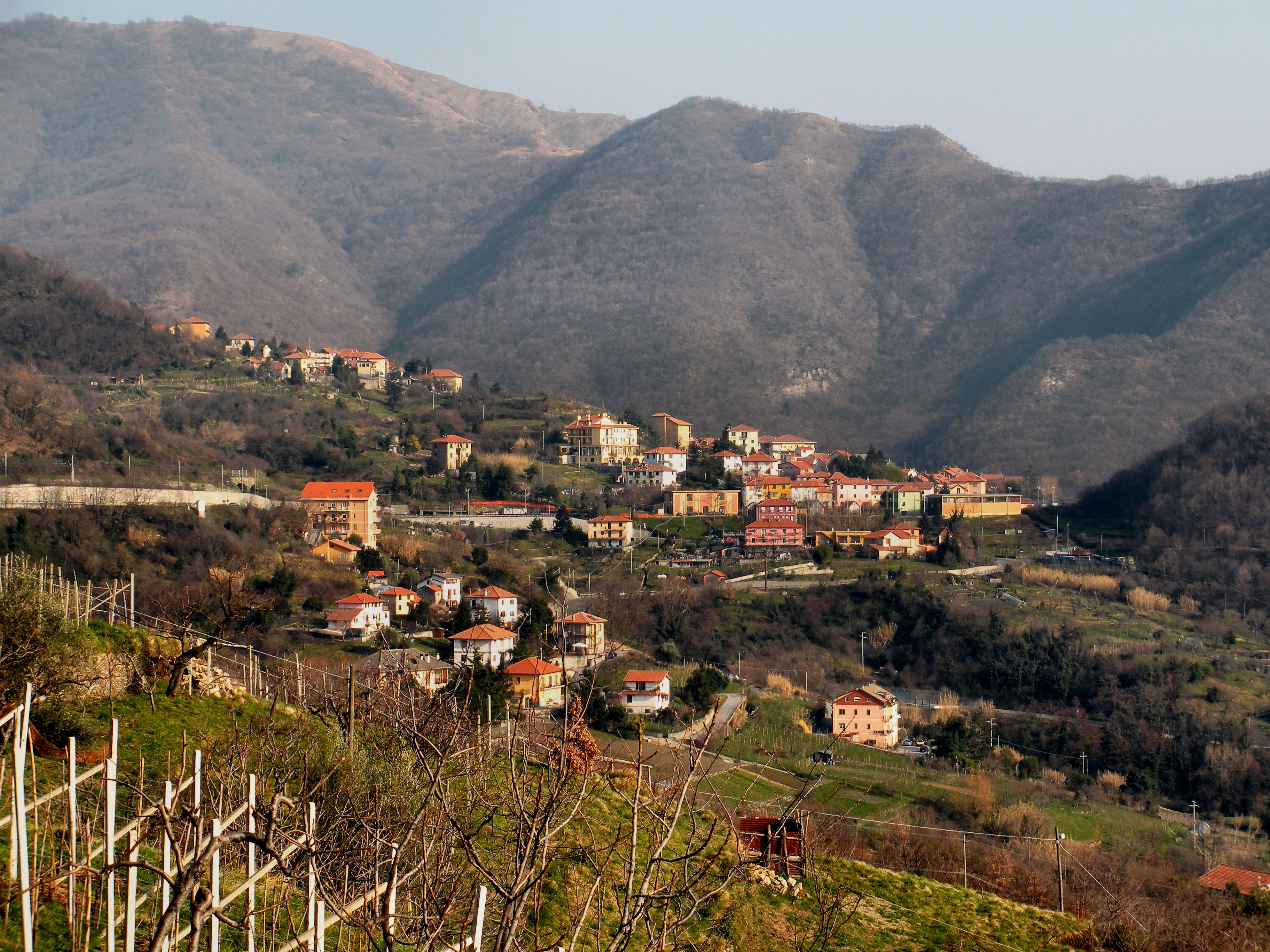 Sant'Olcese (province of Genoa, Italy), view of the village of Vicomorasso